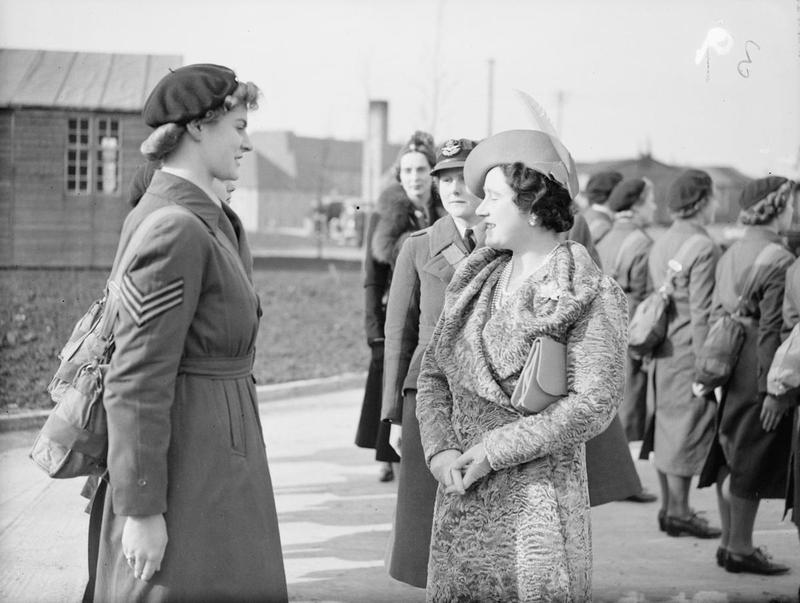 The Womens' Auxiliary Air Force, 1939-1945. Queen Elizabeth chatting with a WAAF sergeant during a visit to an early training establishment at Innsworth, Gloucester. The WAAFs, with the exception of Assistant Section Officer G H Caffin standing behind the Queen, are wearing 'emergency' uniforms consisting of overalls and berets, which were issued pending the arrival of the WAAF service dress.